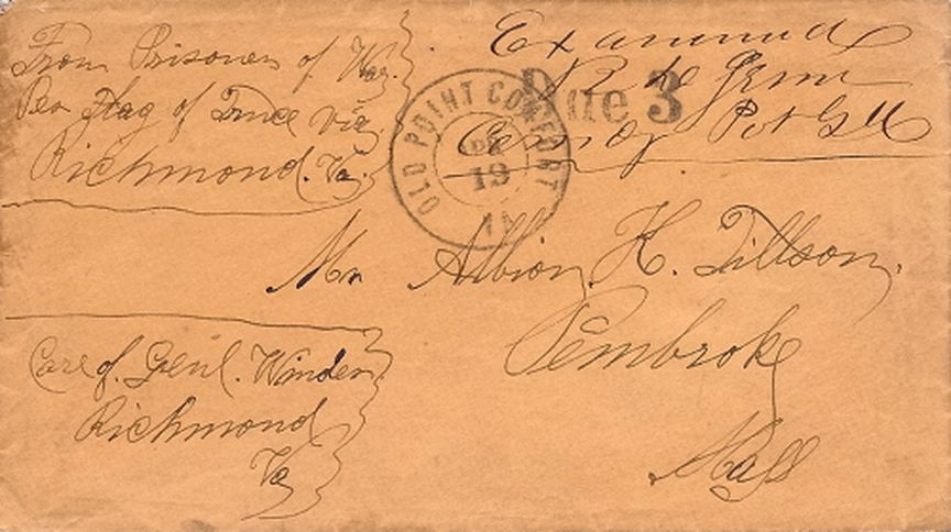 Civil War POW mail, South to North, 1864, stampless, with 'Due 3' handstamp and Old Point Comfort CDS, 1864